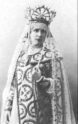 Tsvetkova as Militrisa